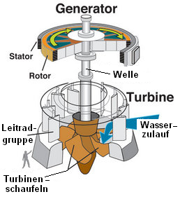 Hydraulic turbine and electrical generator, cutaway view.